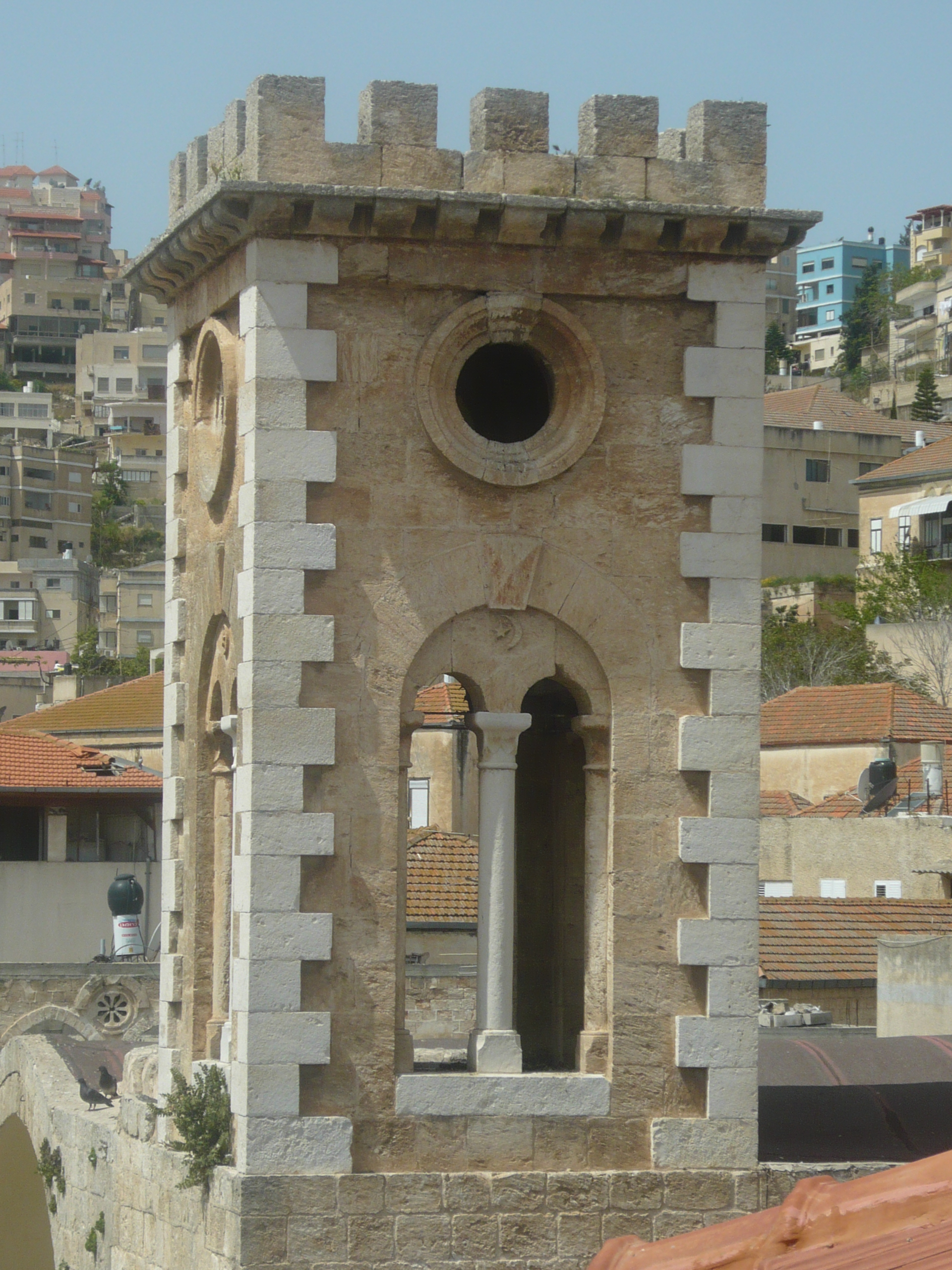 tower in Saraya building nazareth